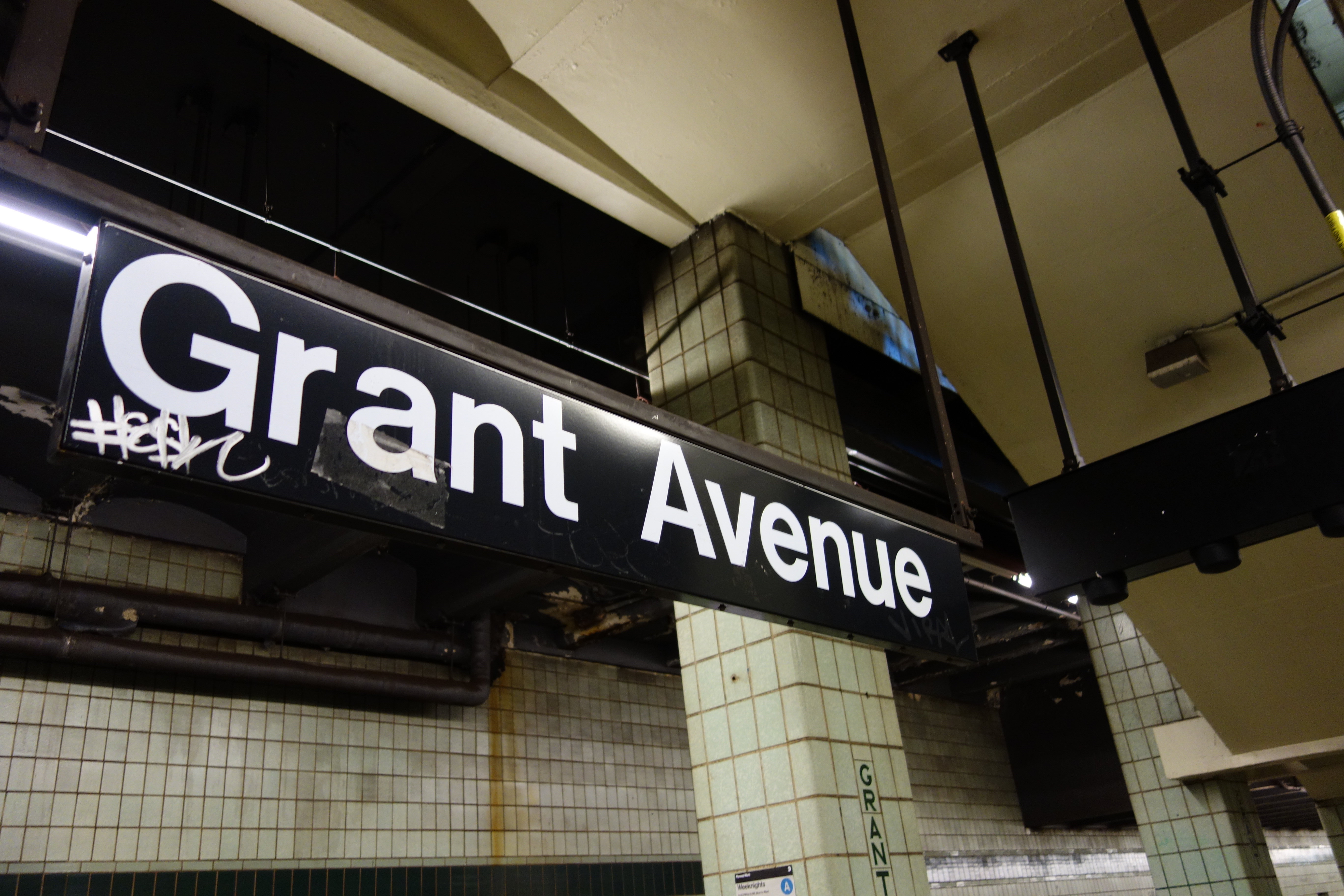 The Grant Avenue subway station in City Line, East New York, Brooklyn. The station's extremely-high ceiling, tiled columns, and general lack of maintenance makes me feel like I'm in the Chambers Street BMT station in Lower Manhattan.